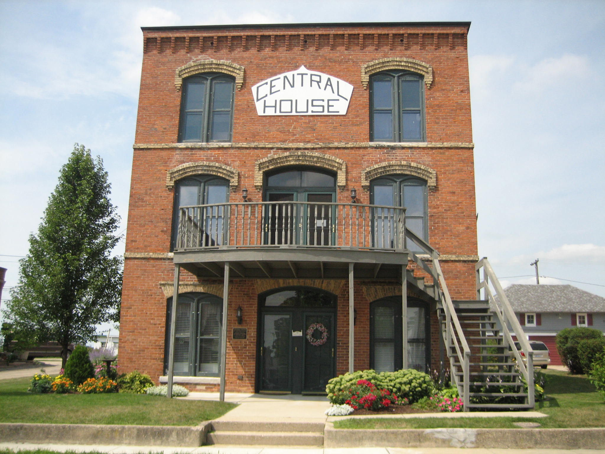 Central House, Orangeville, Illinois, USA. U.S. National Register of Historic Places.